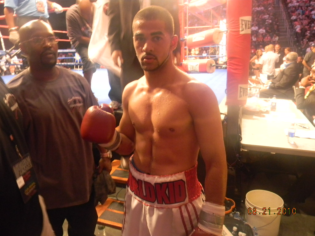 Sadam Ali exiting the ring after knocking to Lenin Arroyo in the Prudential Center, Newark, New Jersey, August 21, 2010.